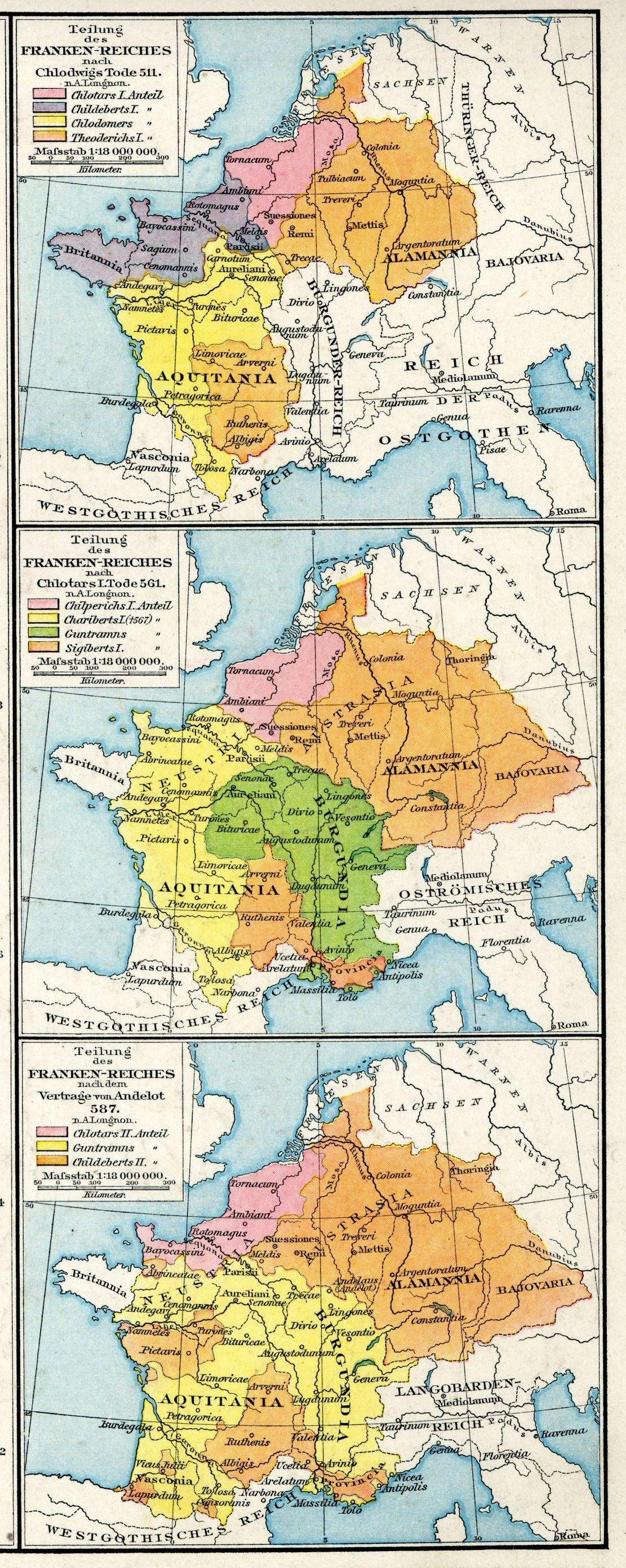 The Frankish Kingdom under the Merovingians